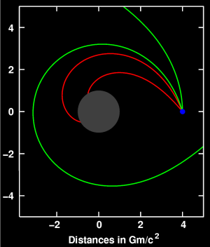 Light sent in different directions being deflected by a nearby massive body. Created for use in Wikipedia: General relativity